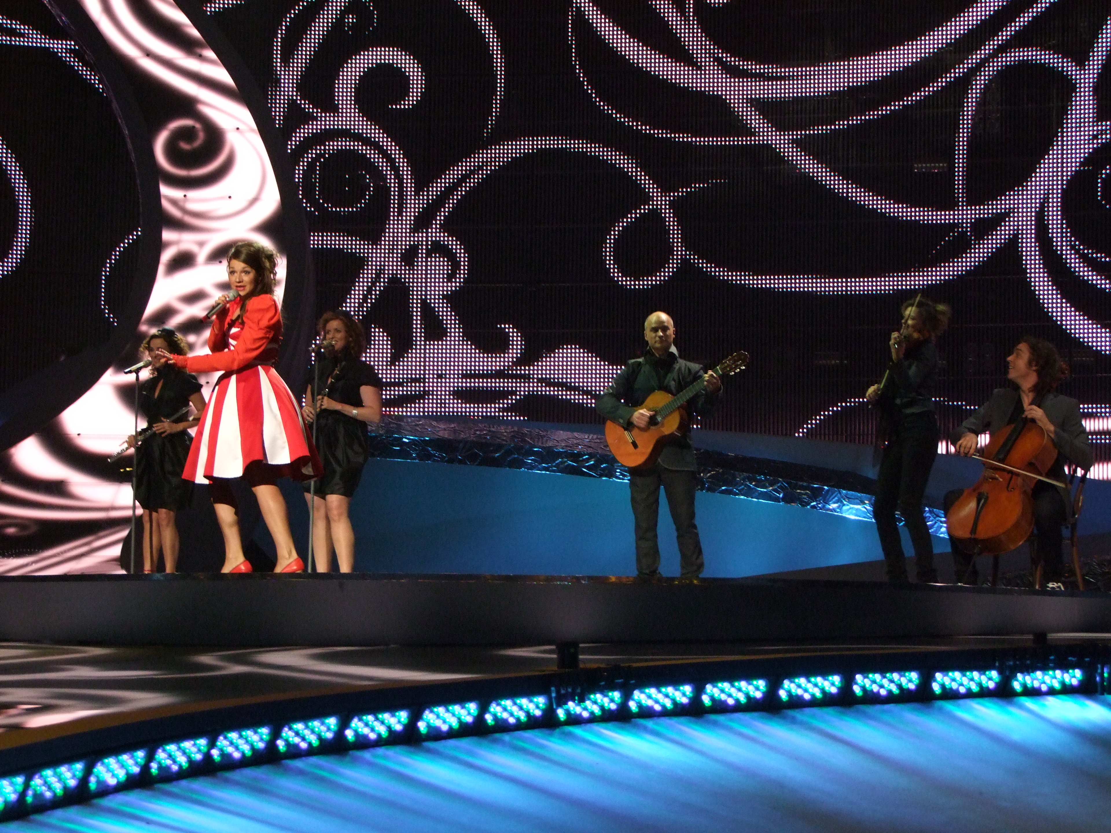 Eurovision Song Contest 2008, 1st semifinalBelgium: Ishtar - O julissi